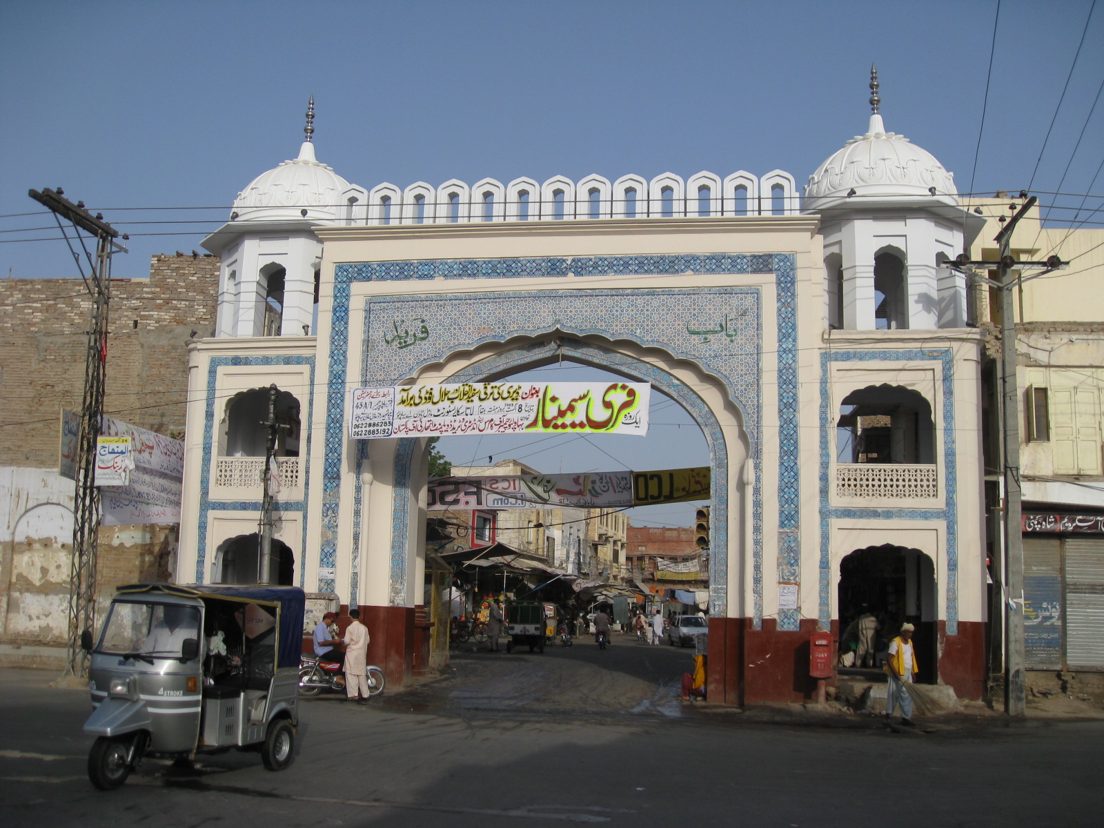 Farid Gate, Bahwalpur